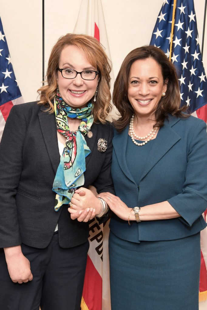 Gabby Giffords is an American hero. Wonderful to meet with her today to discuss what we need to do to achieve gun safety reform. We owe it to every victim, survivor, their families, and our communities to act.